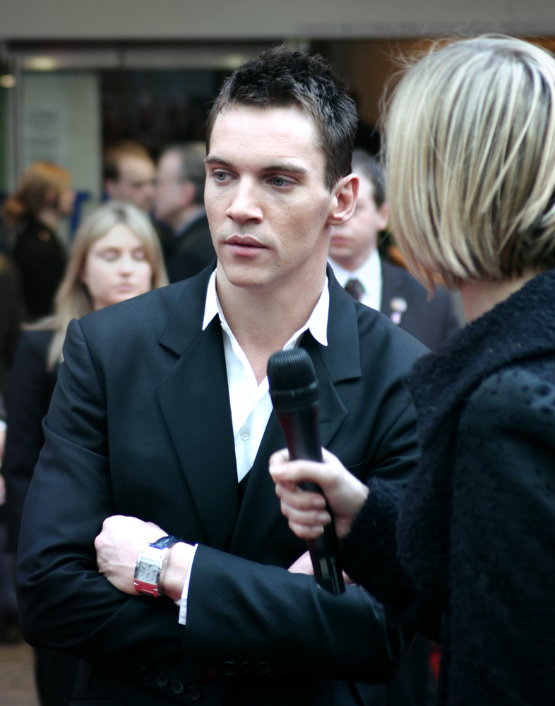 Jonathan Rhys Meyers at the Mission: Impossible 3 British premiere.